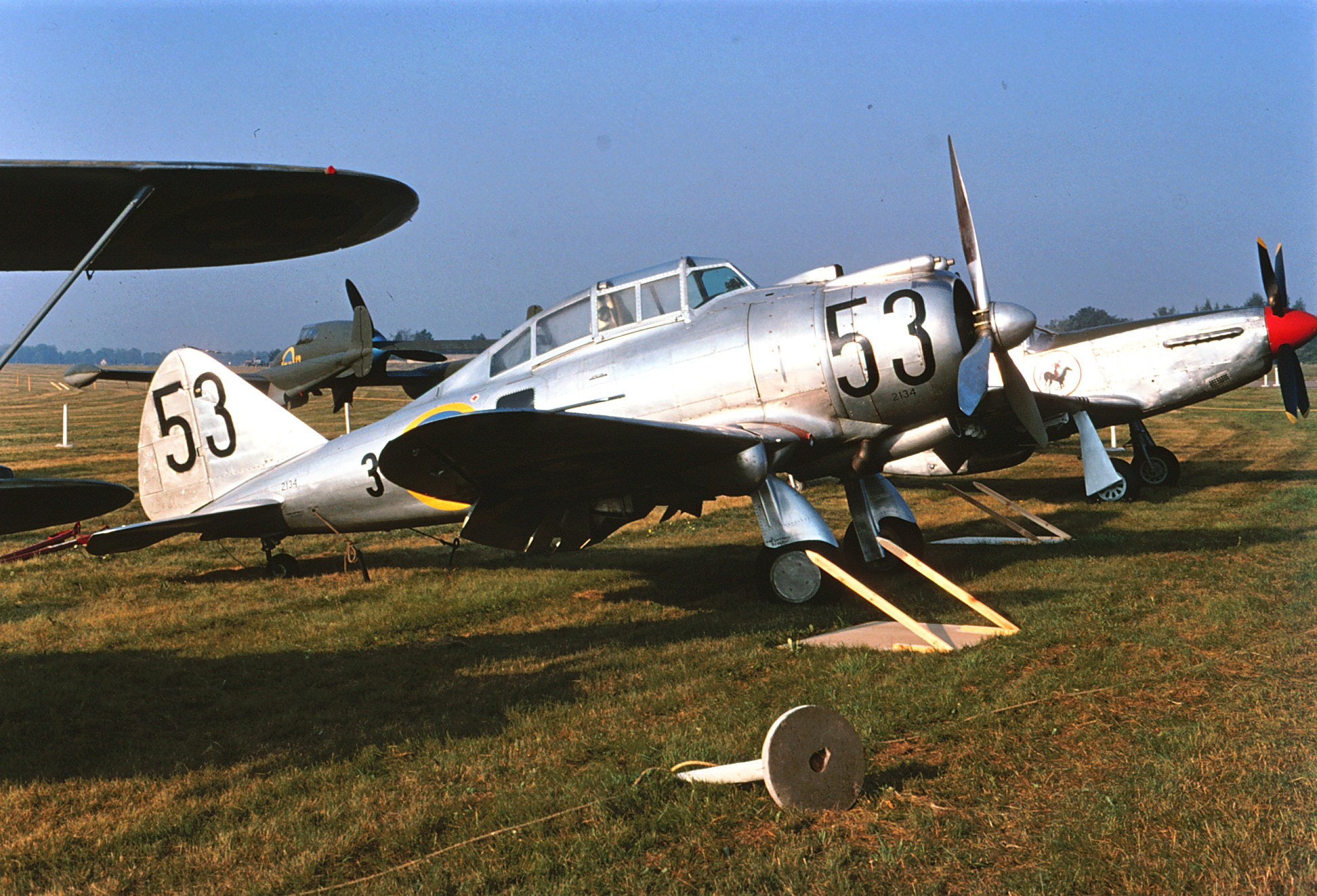 Seversky EP-106, P-35A. Swedish Air Force J 9